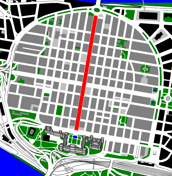 Locator map of "Breite Strasse", Mannheim, Germany